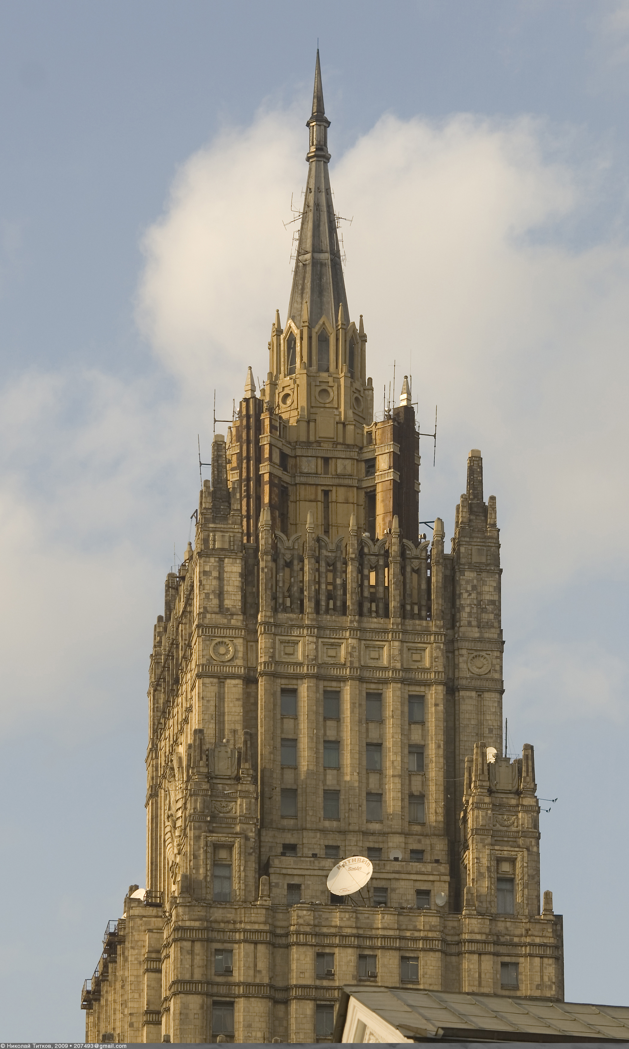 Ministry of Foreign Affairs of the Russian Federation in Moscow.